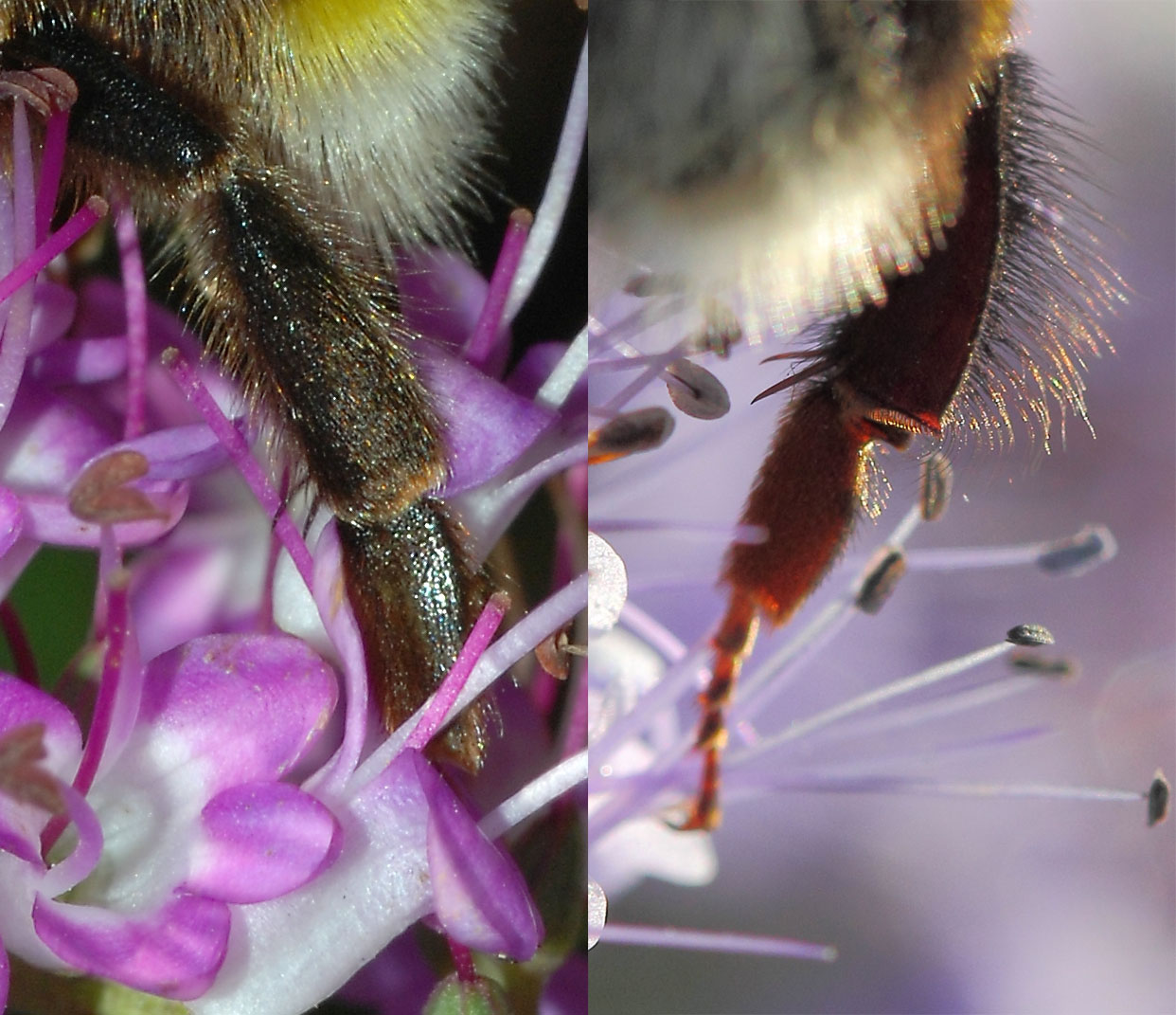 Bombus vestalis (left) and Bombus terrestris (right) legs.